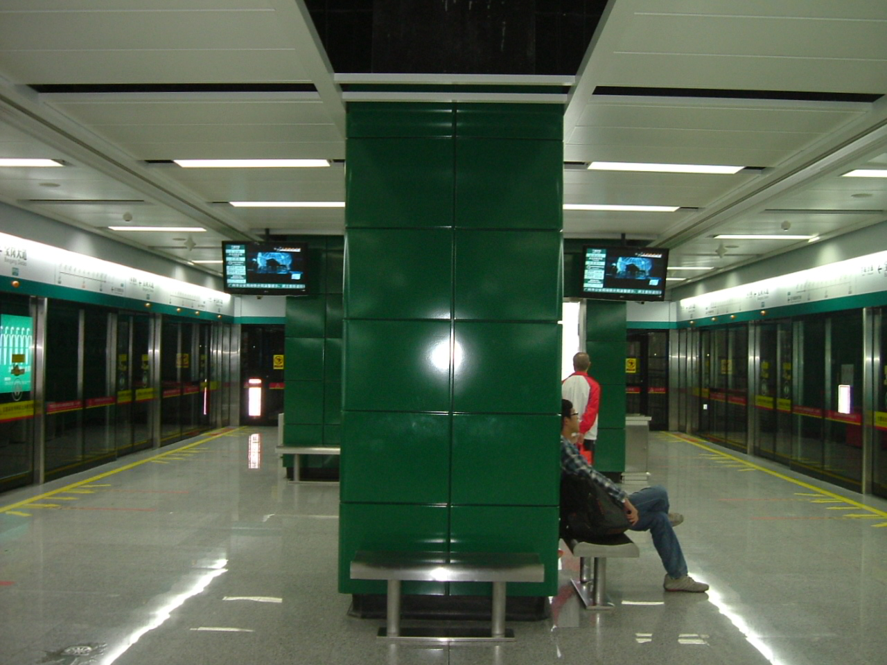 Guangzhou Metro Line 8 Baogang Dadao station platform